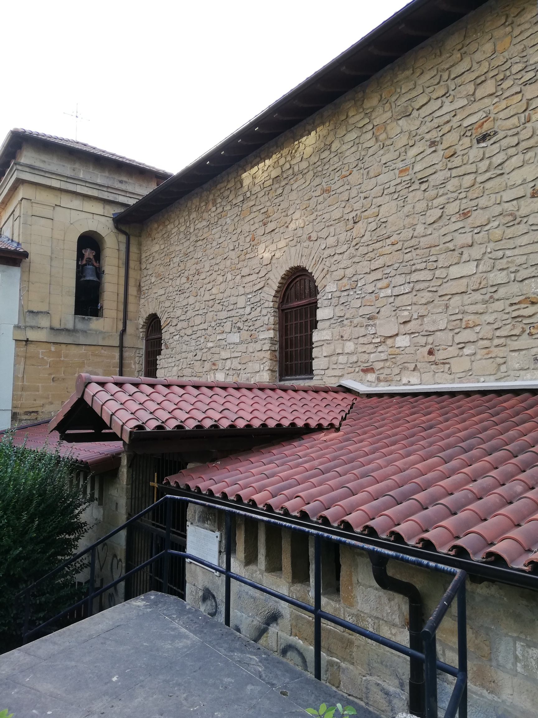 At the bottom of the stairs is the main entrance